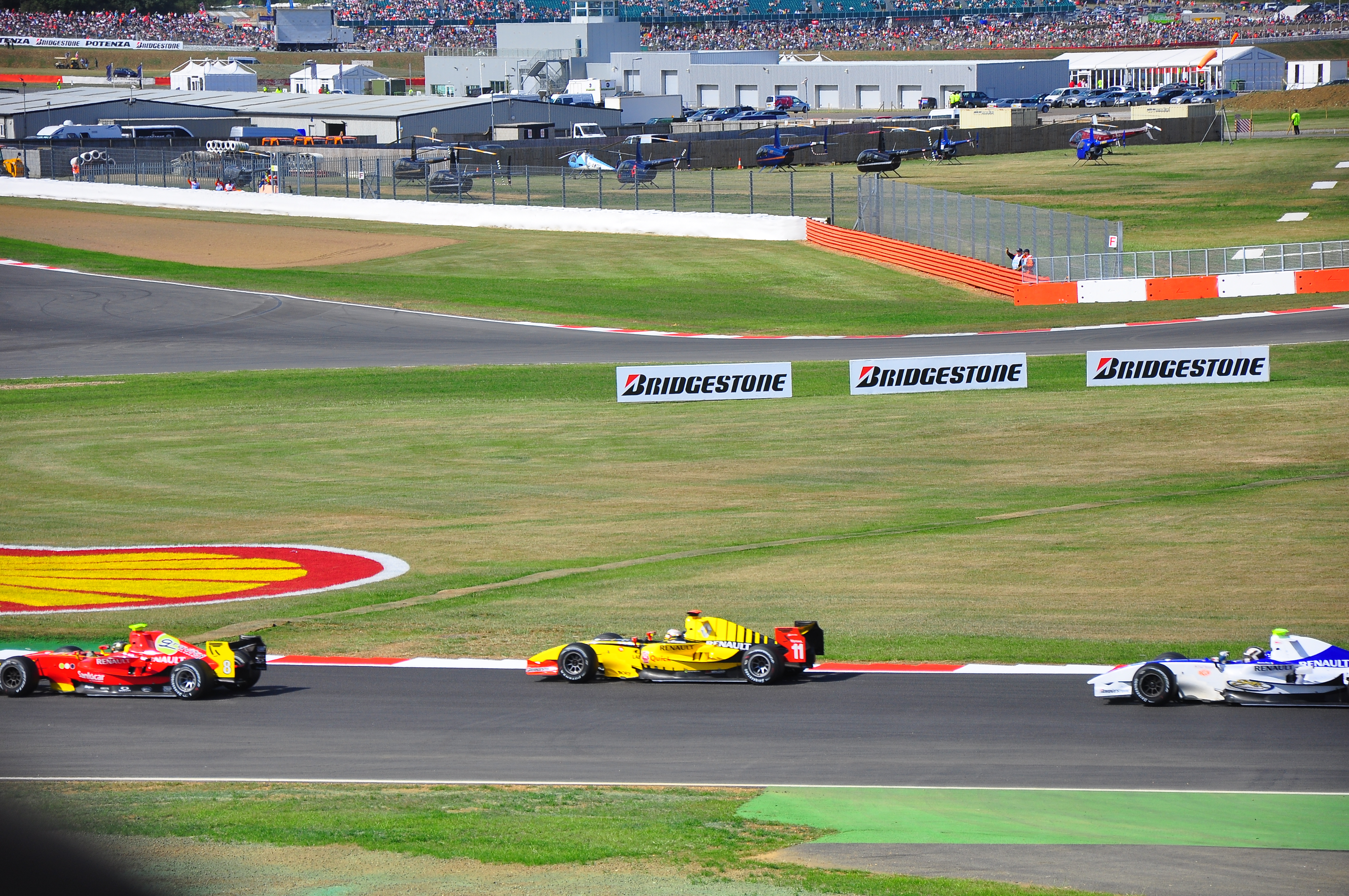 Christian Vietoris of Racing Engineering leads Jérôme d'Ambrosio of DAMS and DPR's Giacomo Ricci at Round 5 of the 2010 GP2 season at Silverstone